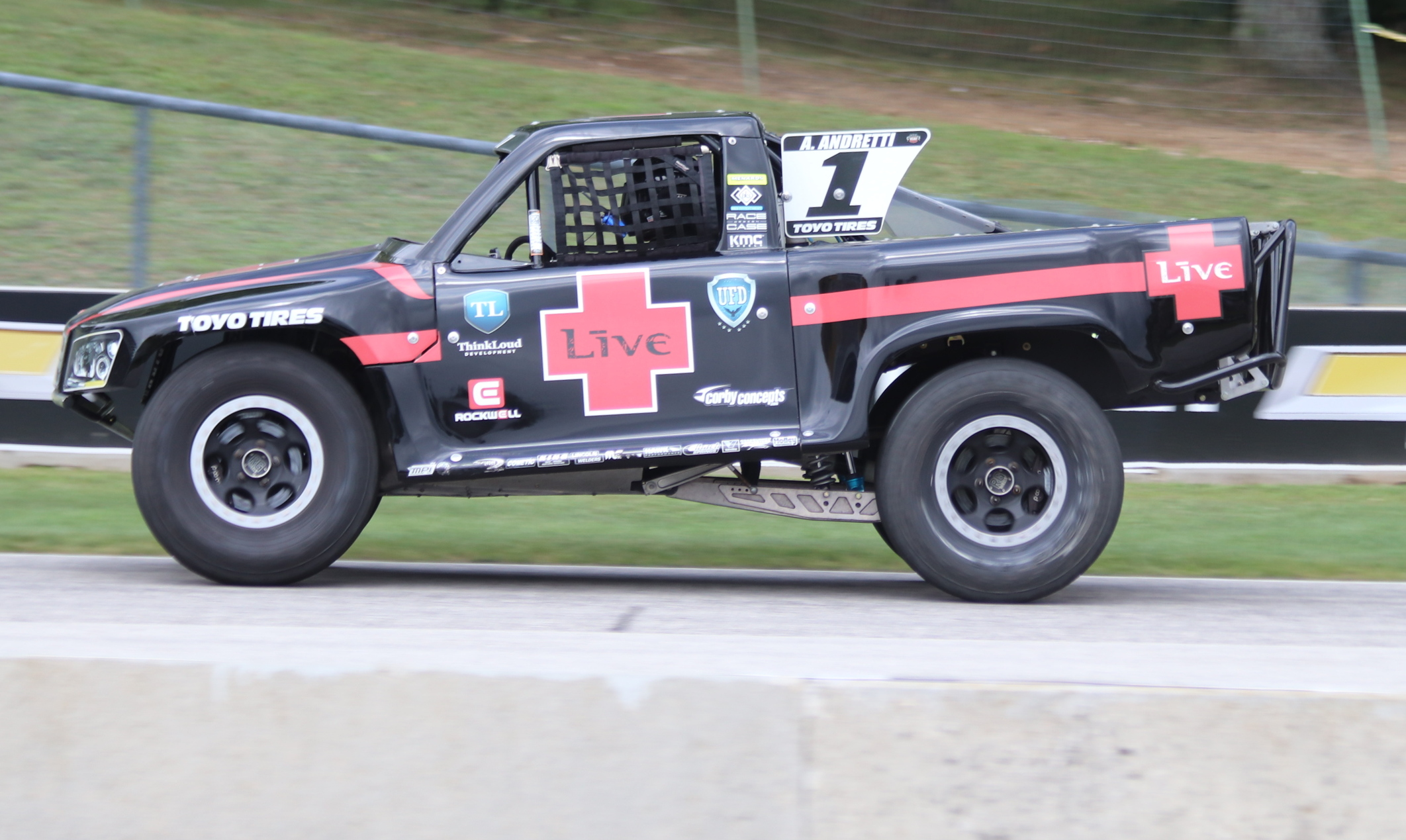 The 2018 Speed Energy Formula Off-Road truck of Adam Andretti at Road America